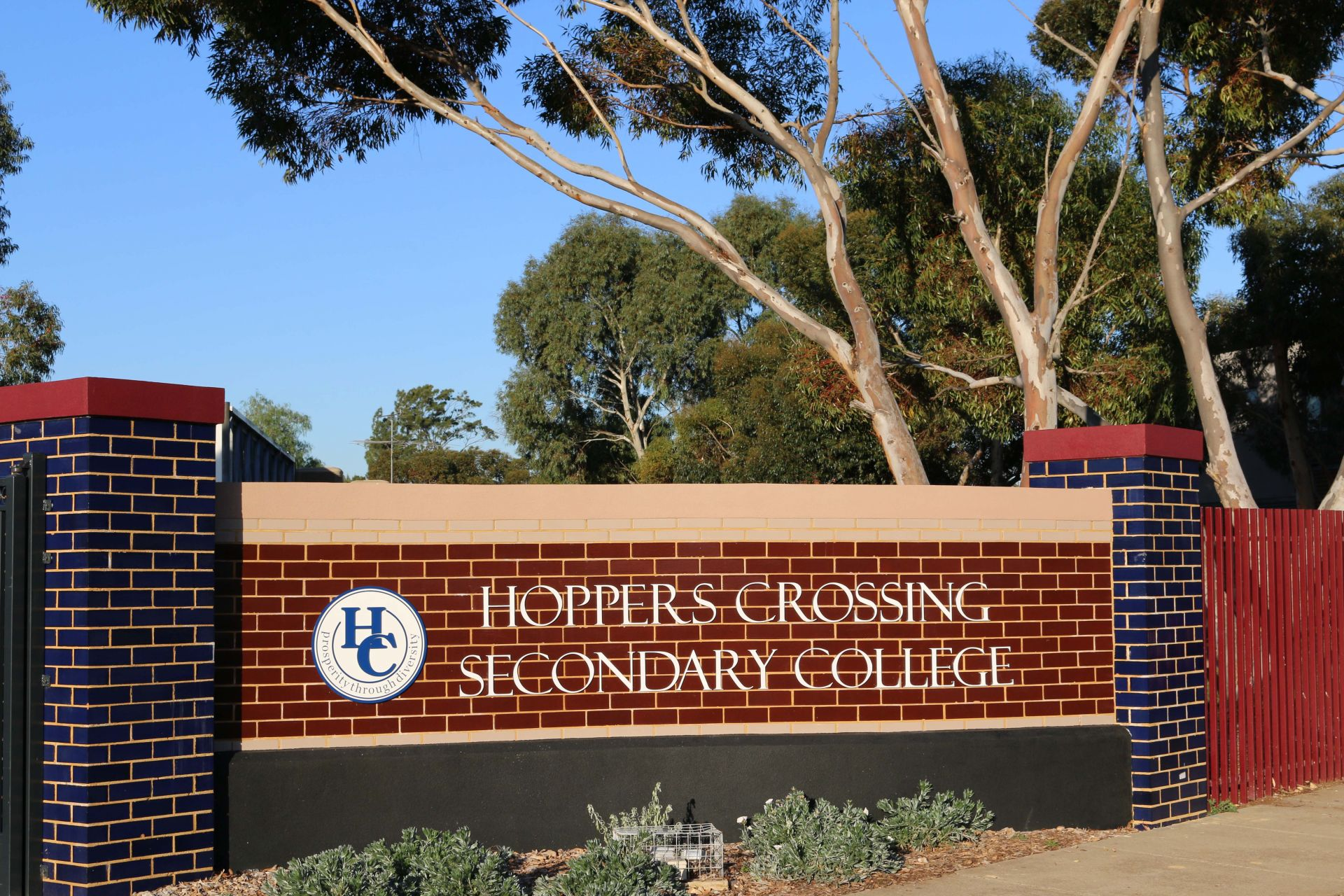 HC School